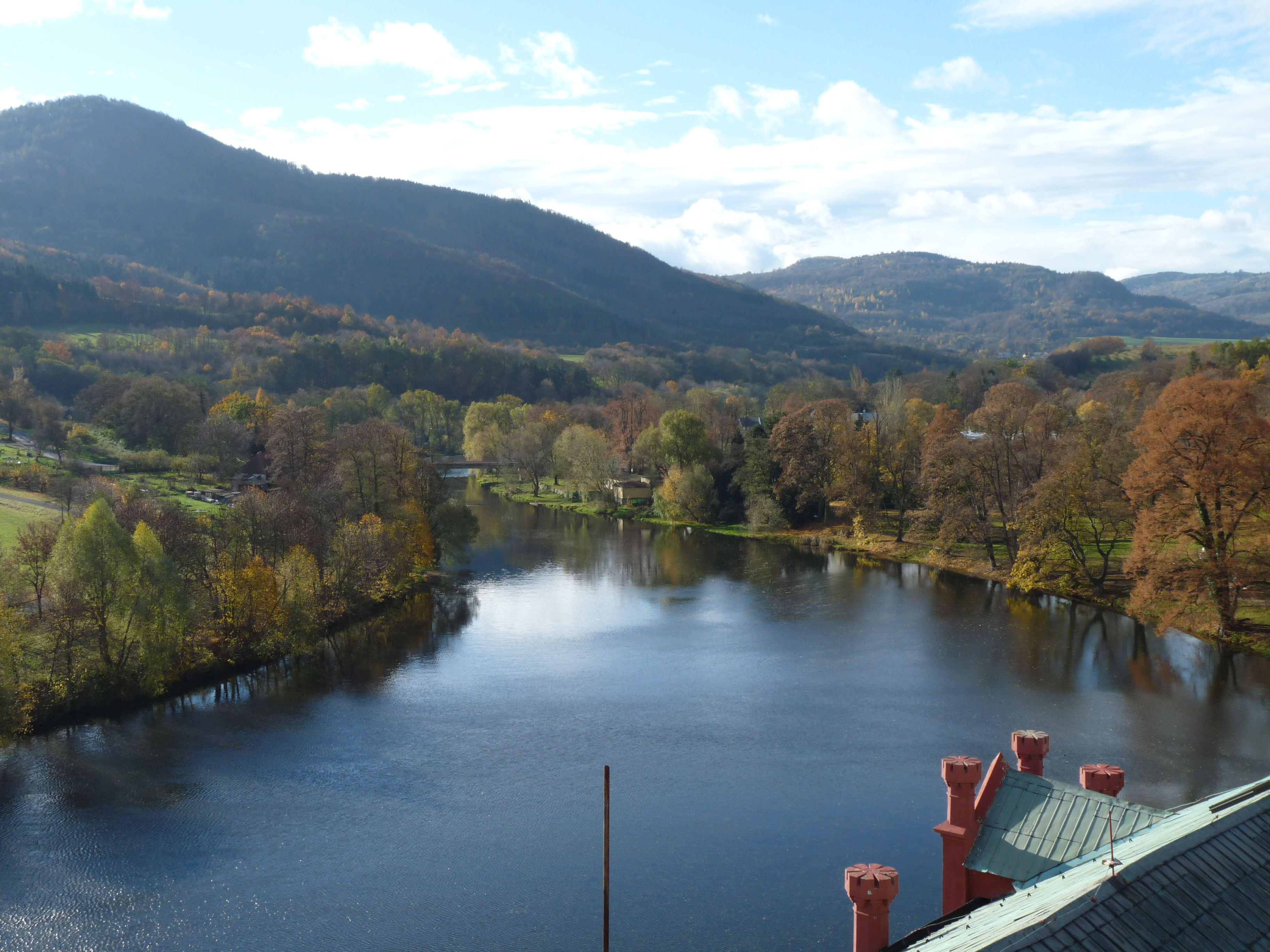 Ohře River as seen from the tower of the chateau in the town of Klášterec nad Ohří, Chomutov District, Ústí nad labem Region, Czech Republic.